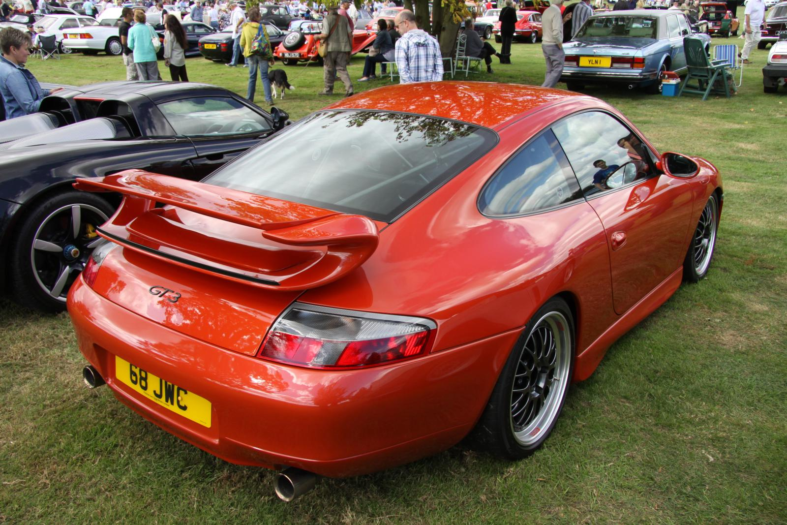 Red Porsche 996 GT3 Clubsport with BBS rims at the 2nd Classic & Sports Car Show to be held at Hall Farm, Fornham St. Martin, Nr Bury St Edmunds. More than 200 pre-war, post-war and modern classic cars, along with craft stalls, live music, delicious food and beverages by well known local suppliers and children's activities. In aid of St Nicholas Hospice Care.